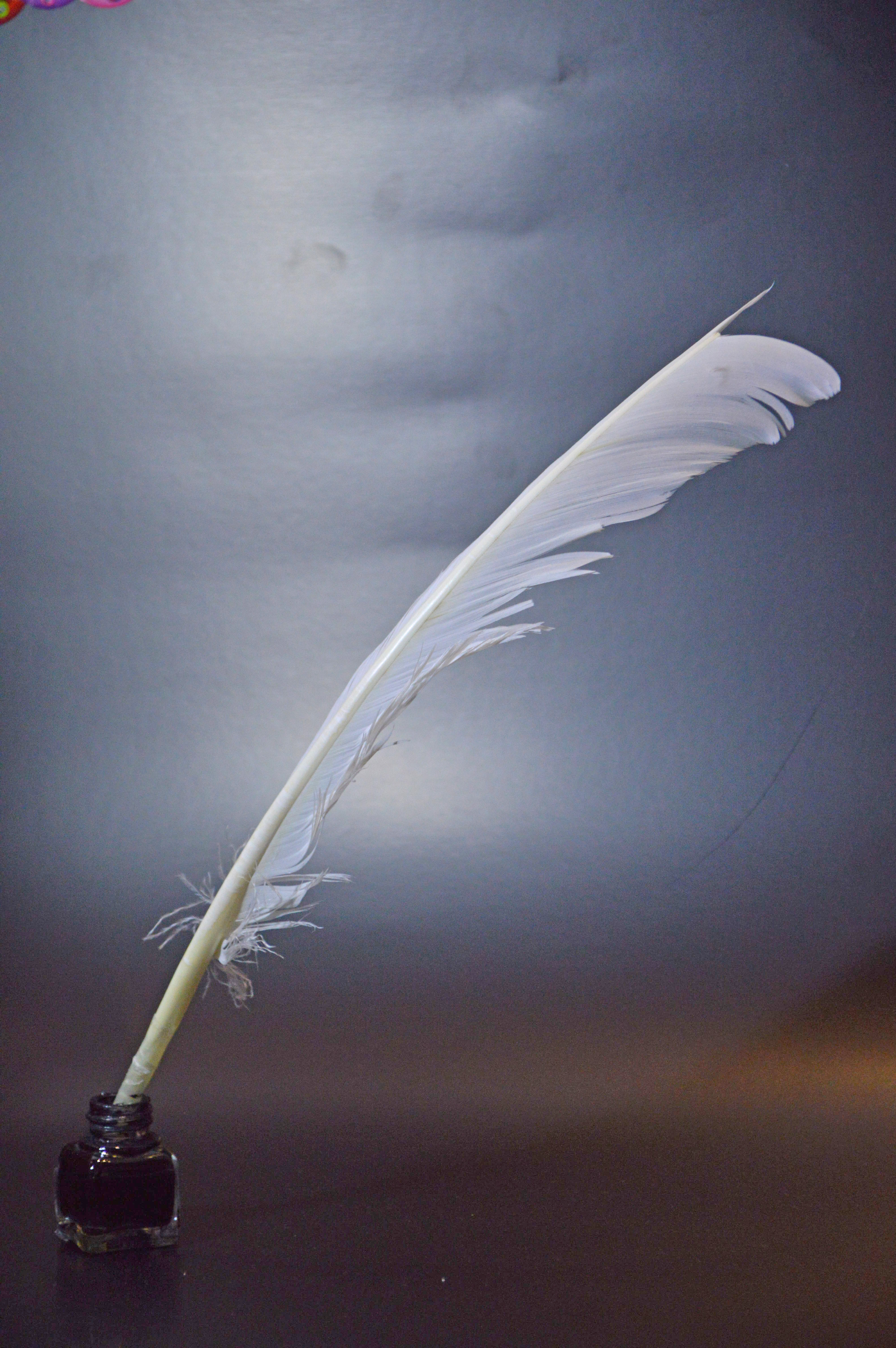 A ink (D'yo) & a feather (Kulmus)